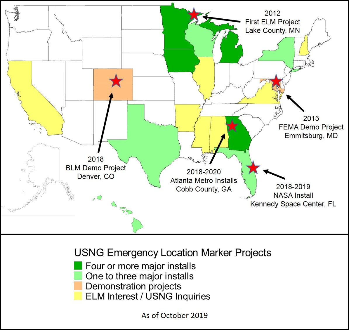 Graphic of USNG Emergency Location Marker projects underway in the United States as of October 2019. Of note, Cape Kennedy Space Center installed ELMs in 2018, and Cobb County, Georgia is home the nation's most expansive urban project.